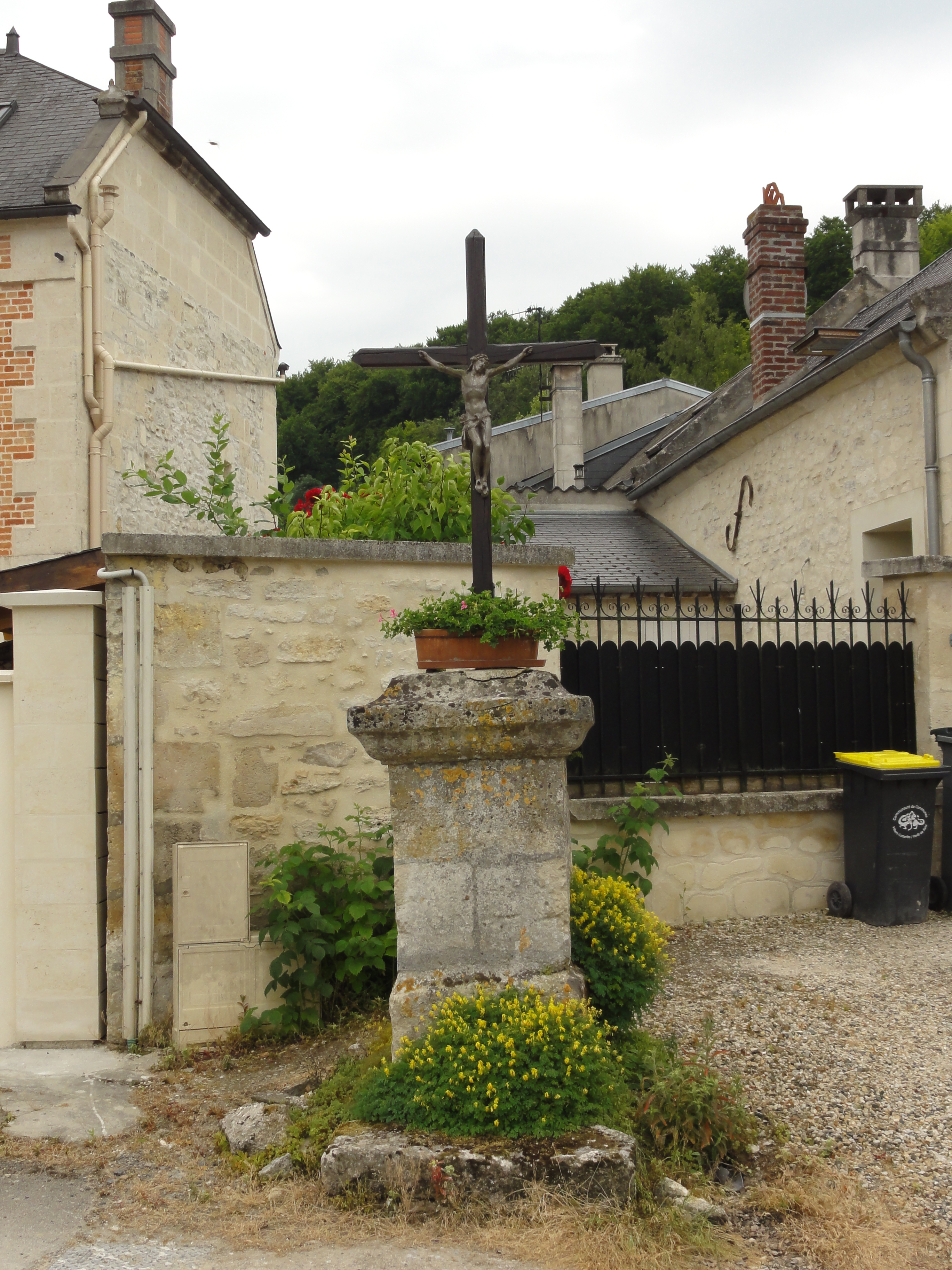 Puiseux-en-Retz (Aisne) croix de chemin, A